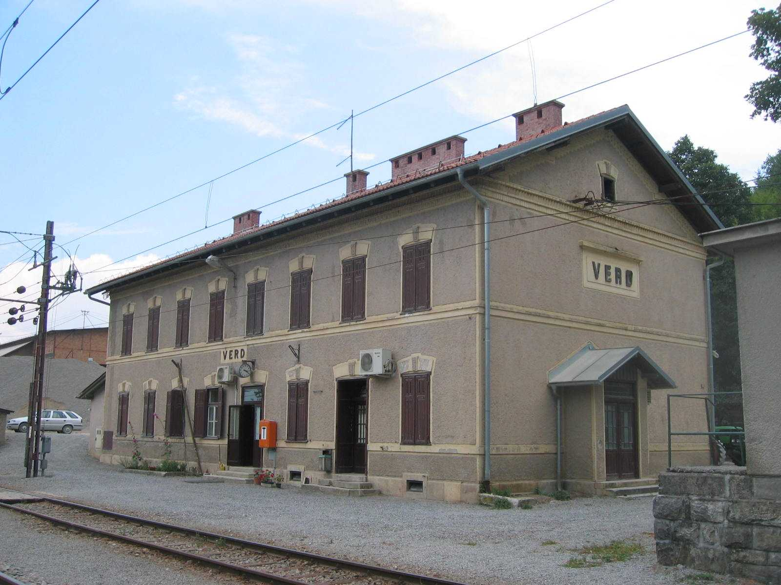 Railway station at Verd, Slovenia photo:Ziga 18:26, 29 July 2006 (UTC)